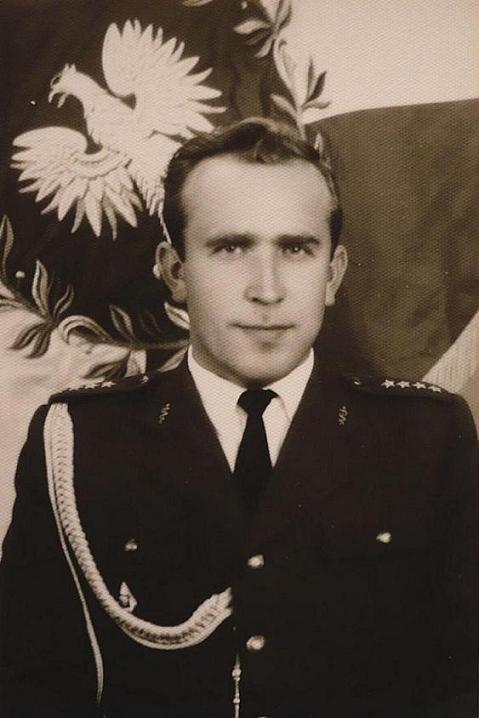 Kierownik GICh w Przasnyszu kpt. lek. med. Zygmunt Gwardys na tle sztandaru 64 Pułku Szkolnego, 1962